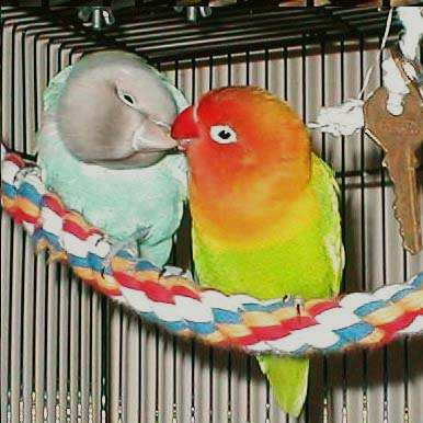 Two Fischer's lovebirds kissing.